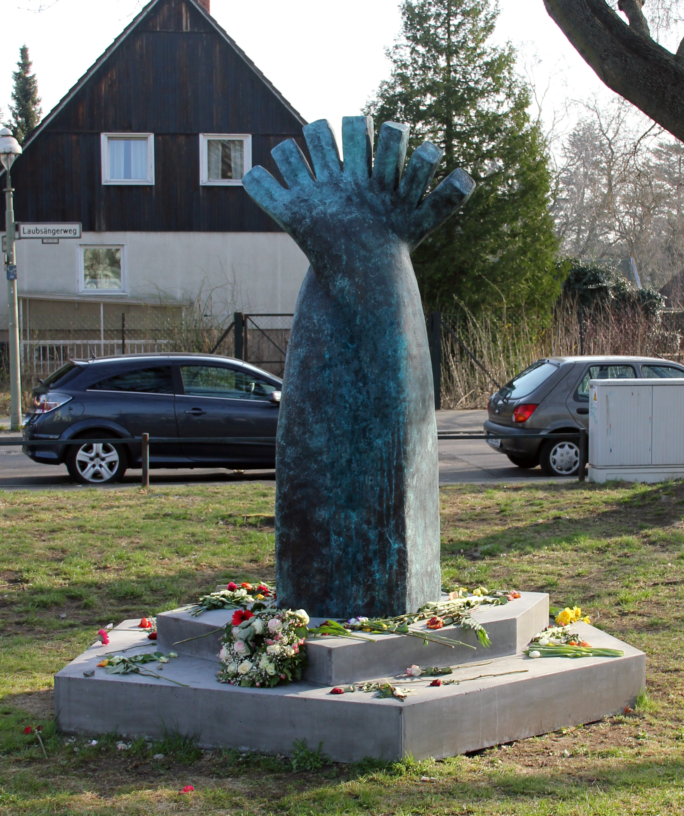 Sculpture, "Algorithmus für Burak und ähnliche Fälle" by Zeynep Delibalta, 2018, Rudower Straße Ecke Möwenweg, Berlin-Buckow, Germany